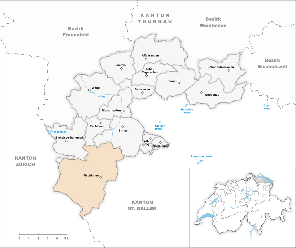 Municipality Fischingen